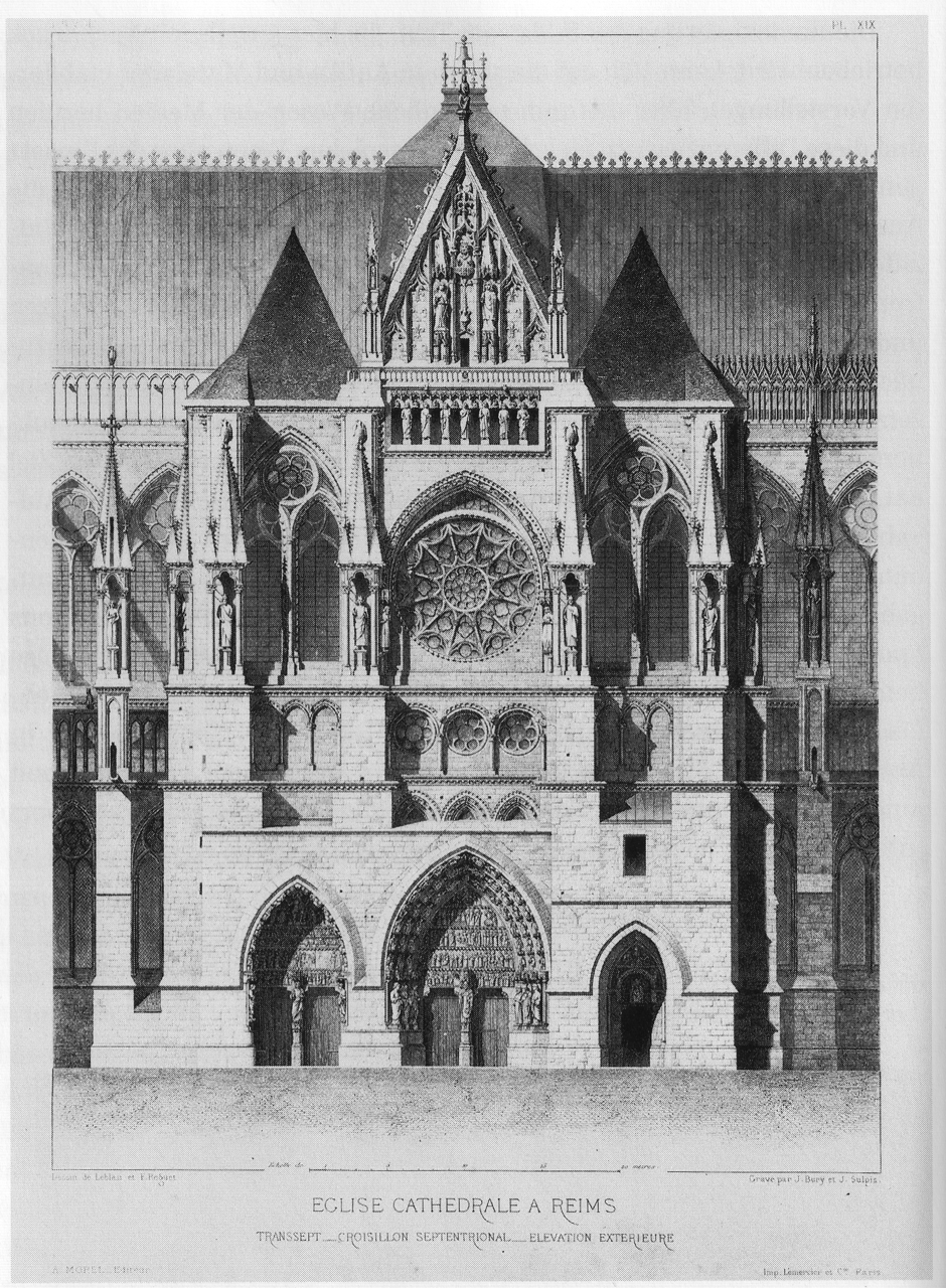 Bury and Sulpis after Leblan and Roguet: facade of the northern nave of Reims cathedral, c. 1869. From: Gailhabaud, Jules: L'Architecture du Ve au XVIIe siècle. 2nd Ed. 4 Volumes. Paris: Morel 169-1872. Vol. 1.